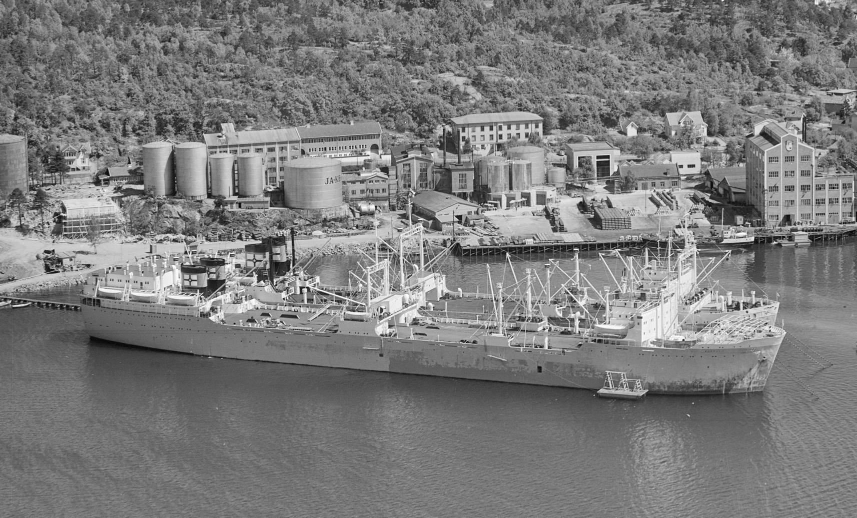 Whaling factory ships Kosmos III (front) and Kosmos IV (rear) in Sandefjord.